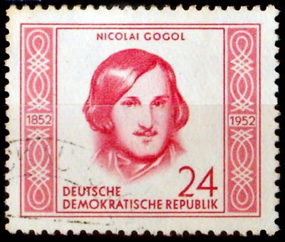 The stamp of GDR devoted of N.V.Gogol, 1952